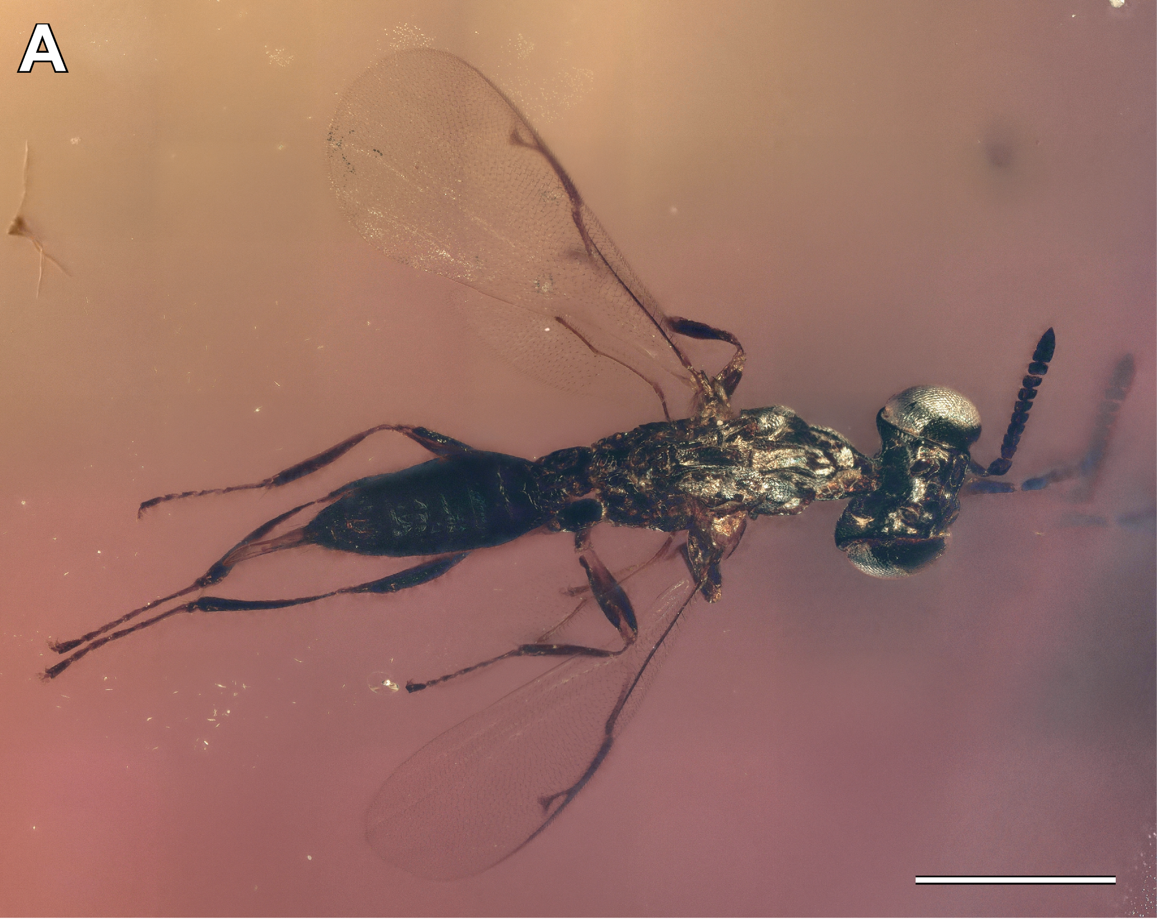 Digital microscopic images of Diversinitus attenboroughi holotype, male. (A) Dorsal habitus. Scale bar: 0.5 mm